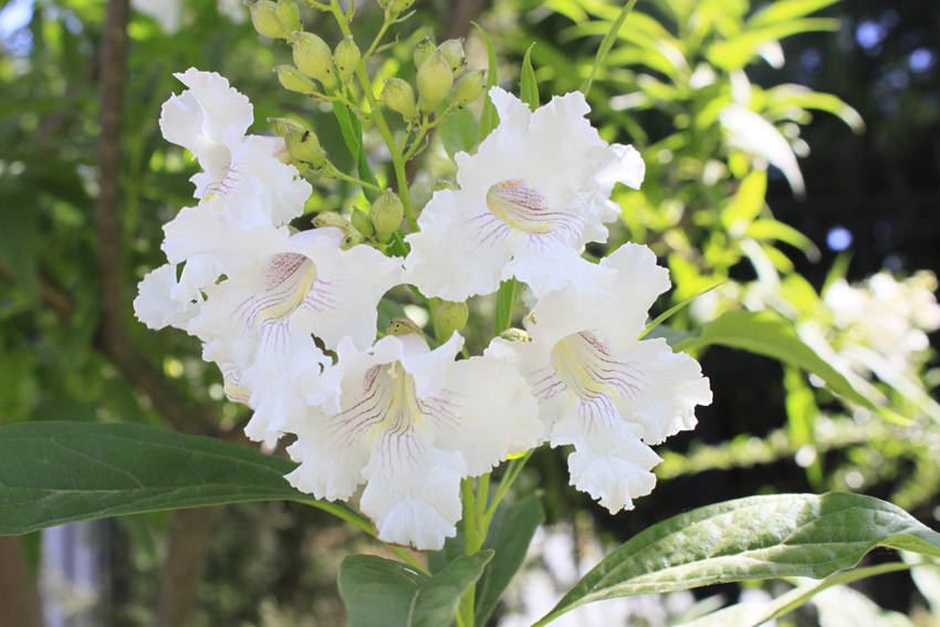 Chitalpa tashkentensis with white flowers